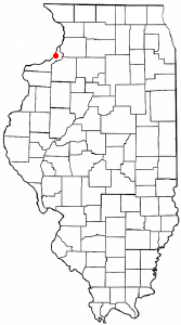 Category:Illinois city locator maps